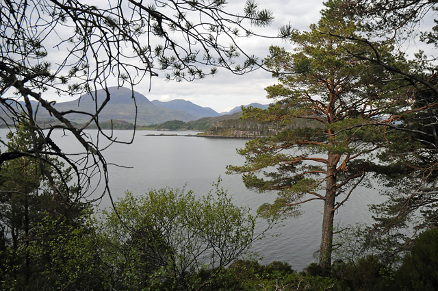 Loch Shieldaig and Shieldaig Island Looking towards the North end of Shieldaig Island and Sgeir an Fhiar with Beinn Alligin in the distance